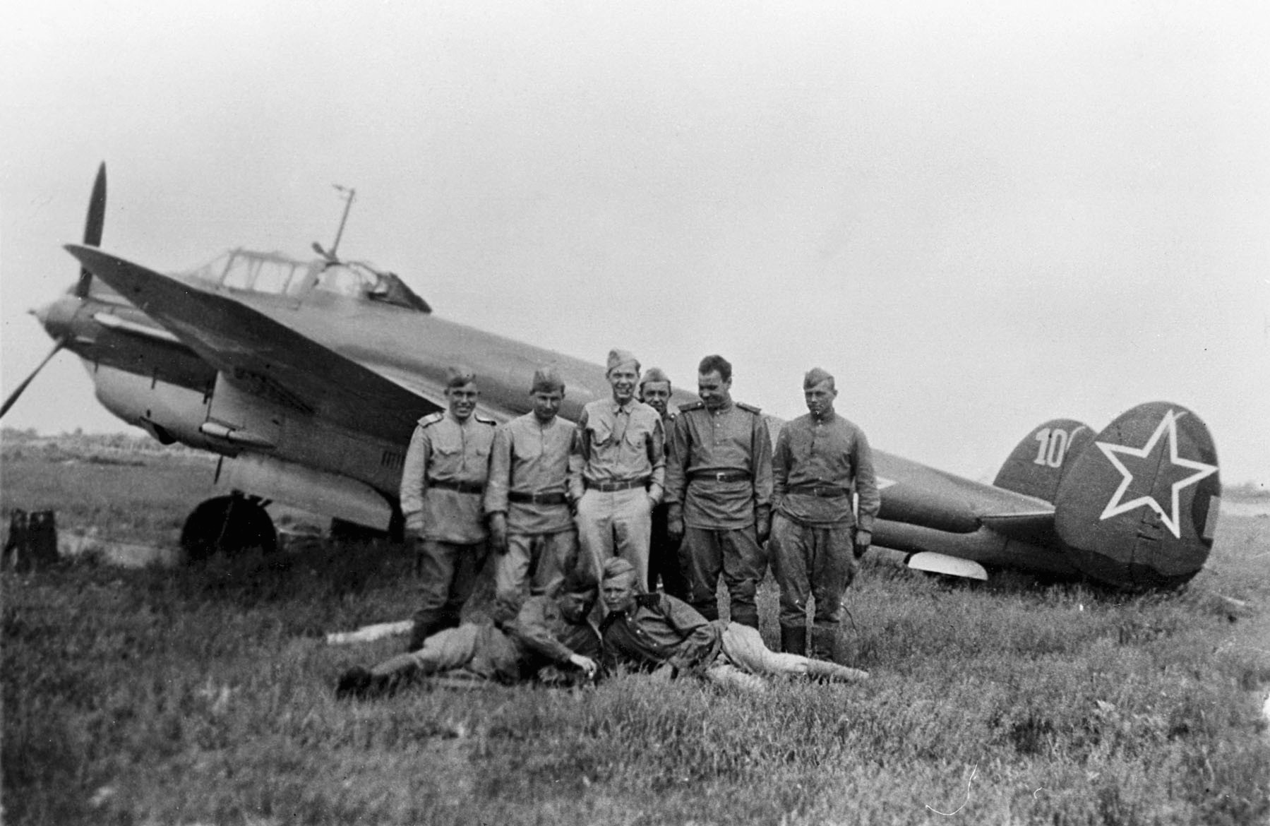 Russian pilots and ground crew stand in front of a Petlyakov Pe-2 light bomber at Poltava, Russia, during the first shuttle raid -- Italy to Russia and return -- in June 1944. GI is TSgt. Bernard J. McGuire, Tonawanda, N.Y., of the 348th Bomb Squadron, 99th Bomb Group.